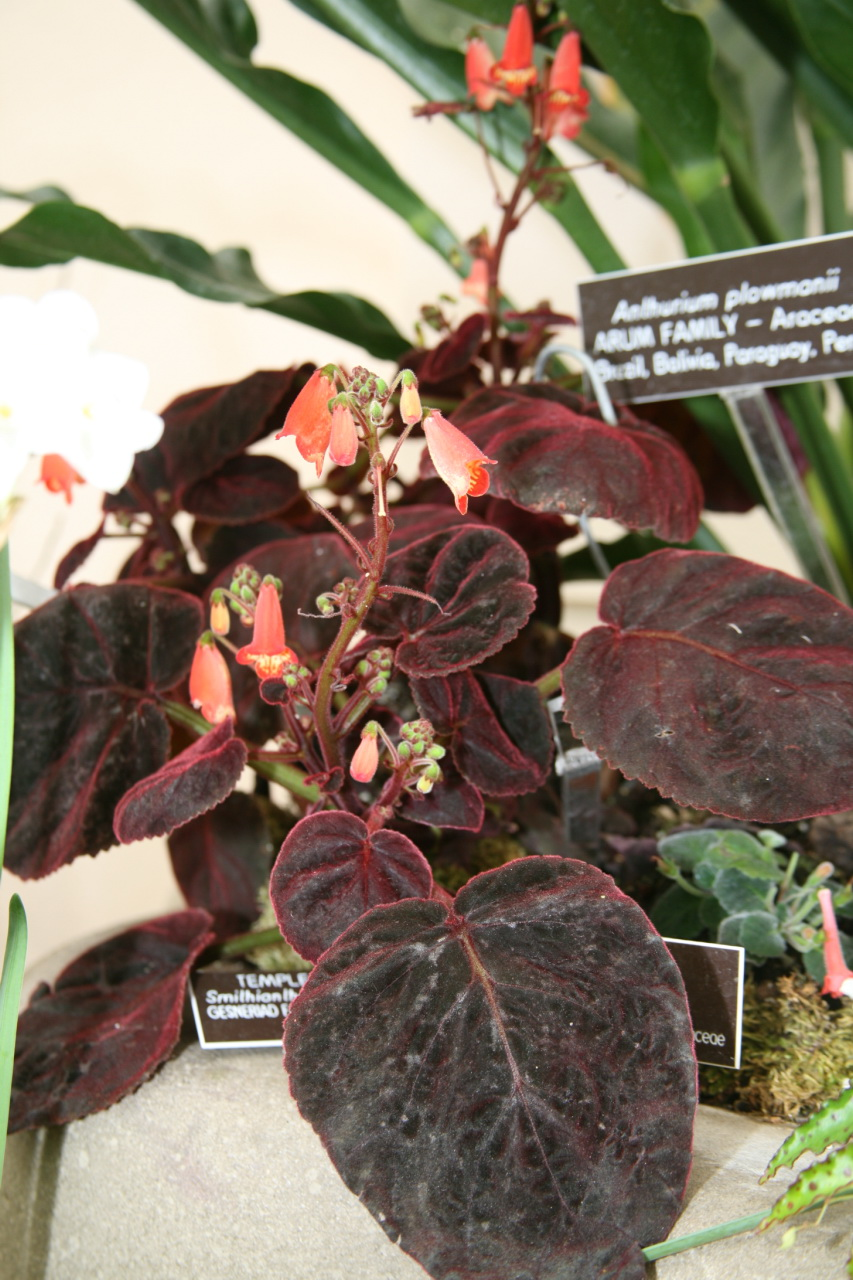 Temple Bells (Smithiantha cinnabarina)